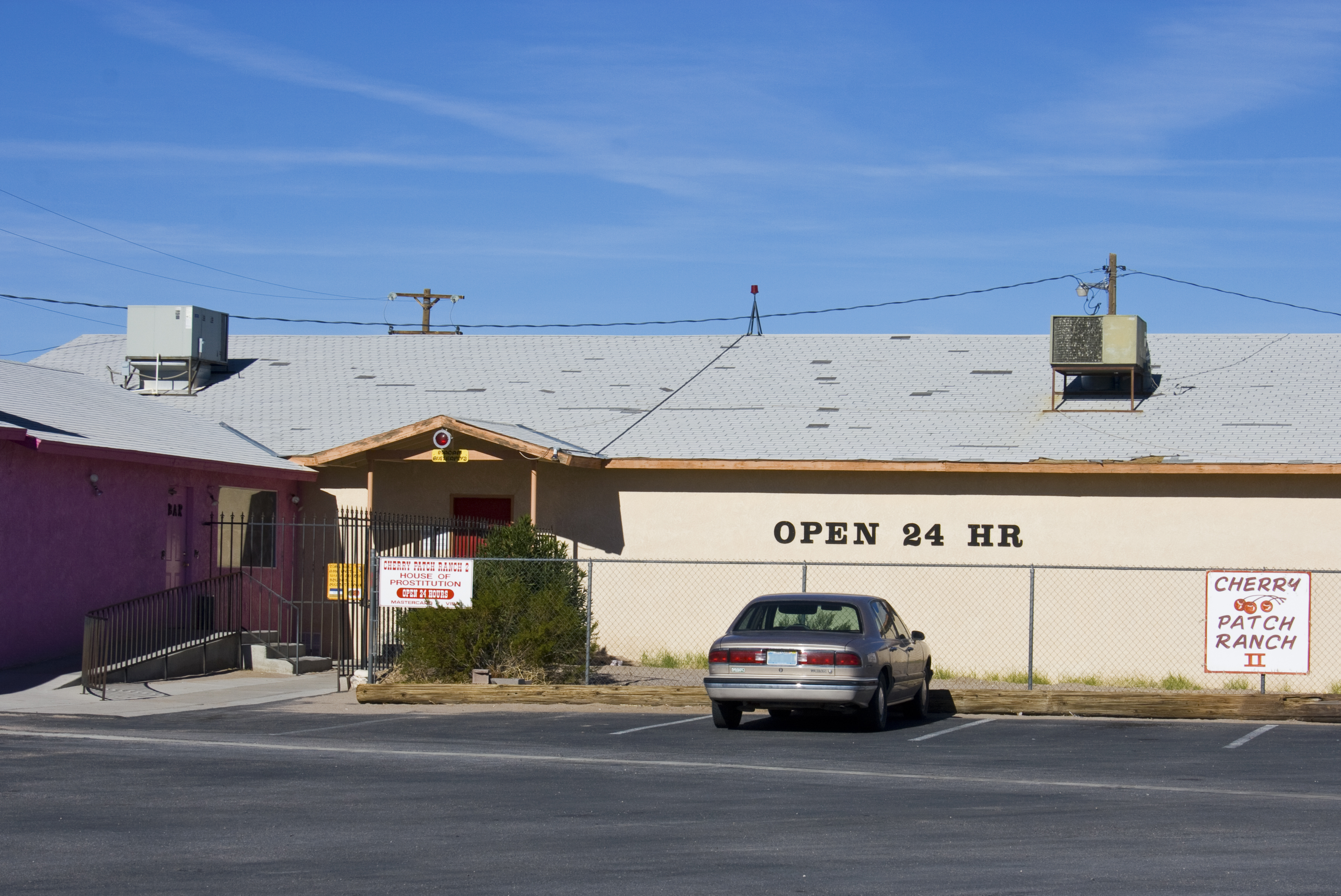 One of the two infamous brothels in Nye County, NV.